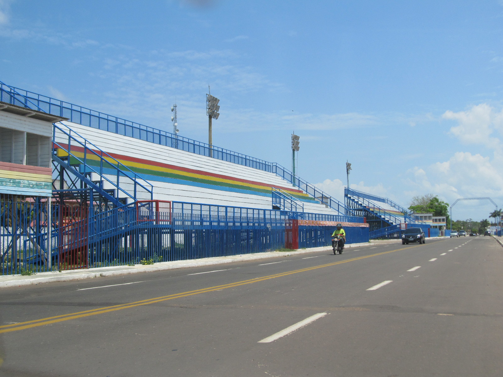 The sambadrome of Macapa city, Brazil (2)